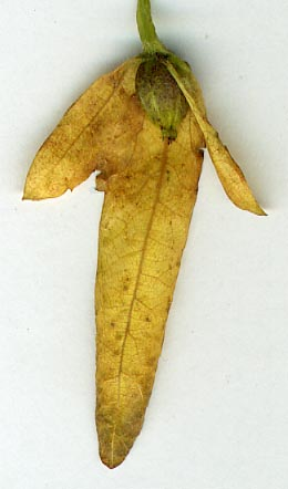 Carpinus betulus seed; whole seed plus wing 4 cm long